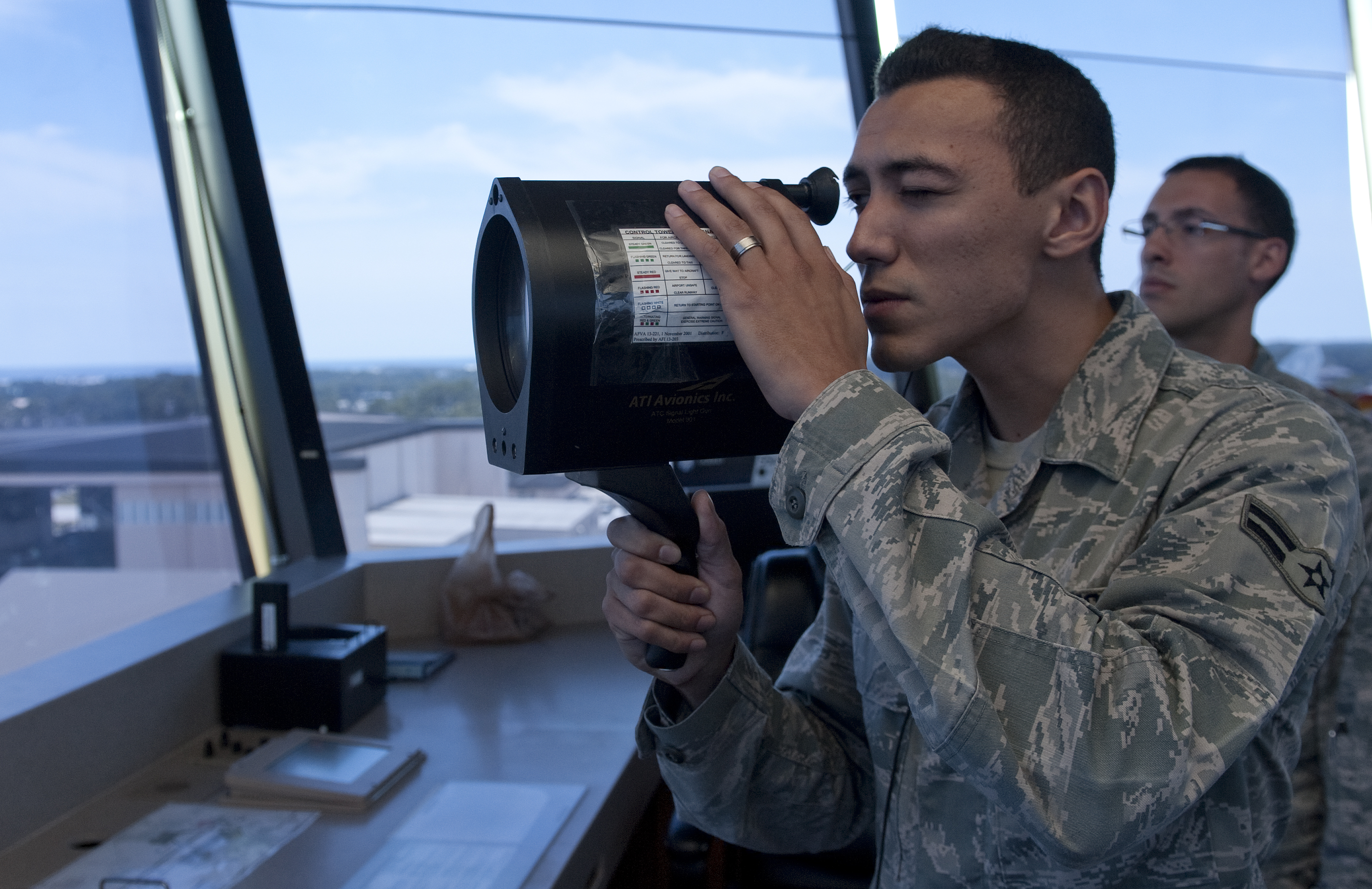 "Airman 1st Class Patrick Ayoung, 1st Special Operations Support Squadron air traffic control apprentice, uses a signal light gun at the base flight tower on Hurlburt Field, Fla., July 17, 2014. Signal lights are used to direct planes, day or night, in case of a radio failure and aircraft not equipped with a radio. (U.S. Air Force photo/Senior Airman Kentavist P. Brackin)"[1]. For more about signal light guns, [1]